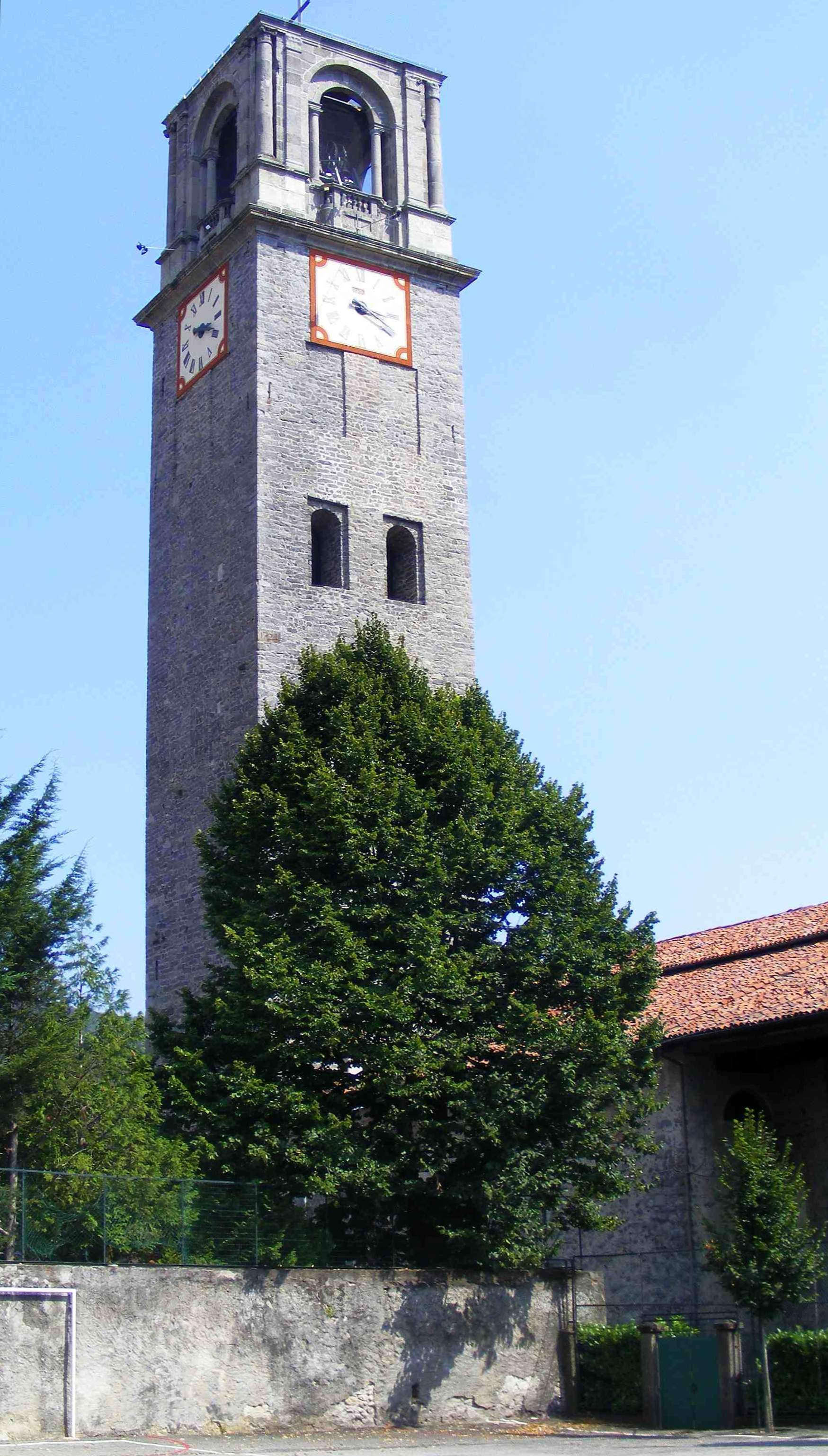 Andorno (BI, Italy): church tower